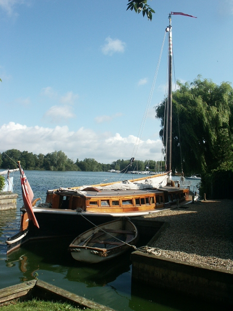 Pleasure Wherry Hathor, South Walsham staithe. More information on Hathor and the wherry yachts in the same fleet